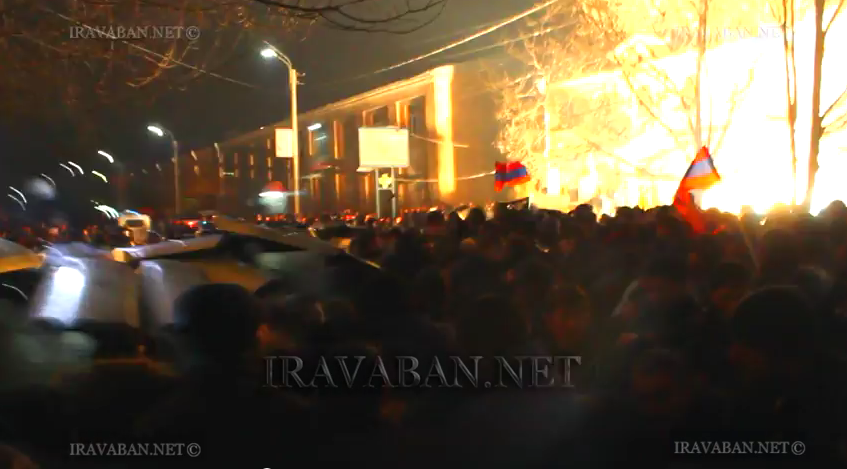 Protests following the 2015 Gyumri massacre